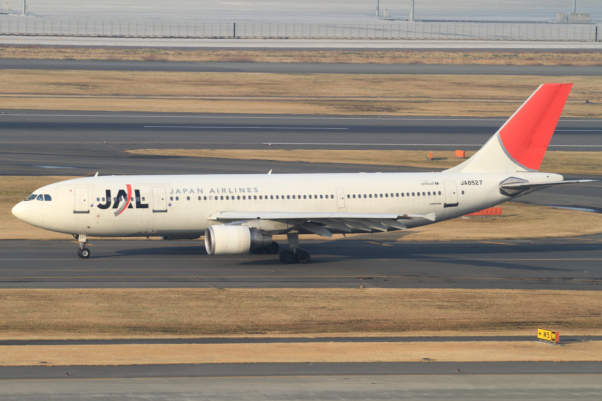 Tokyo International Airport, Airbus A300B4-622R, c/n:724, Japan Airlines